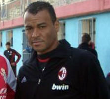 Brasilian football player Cafu